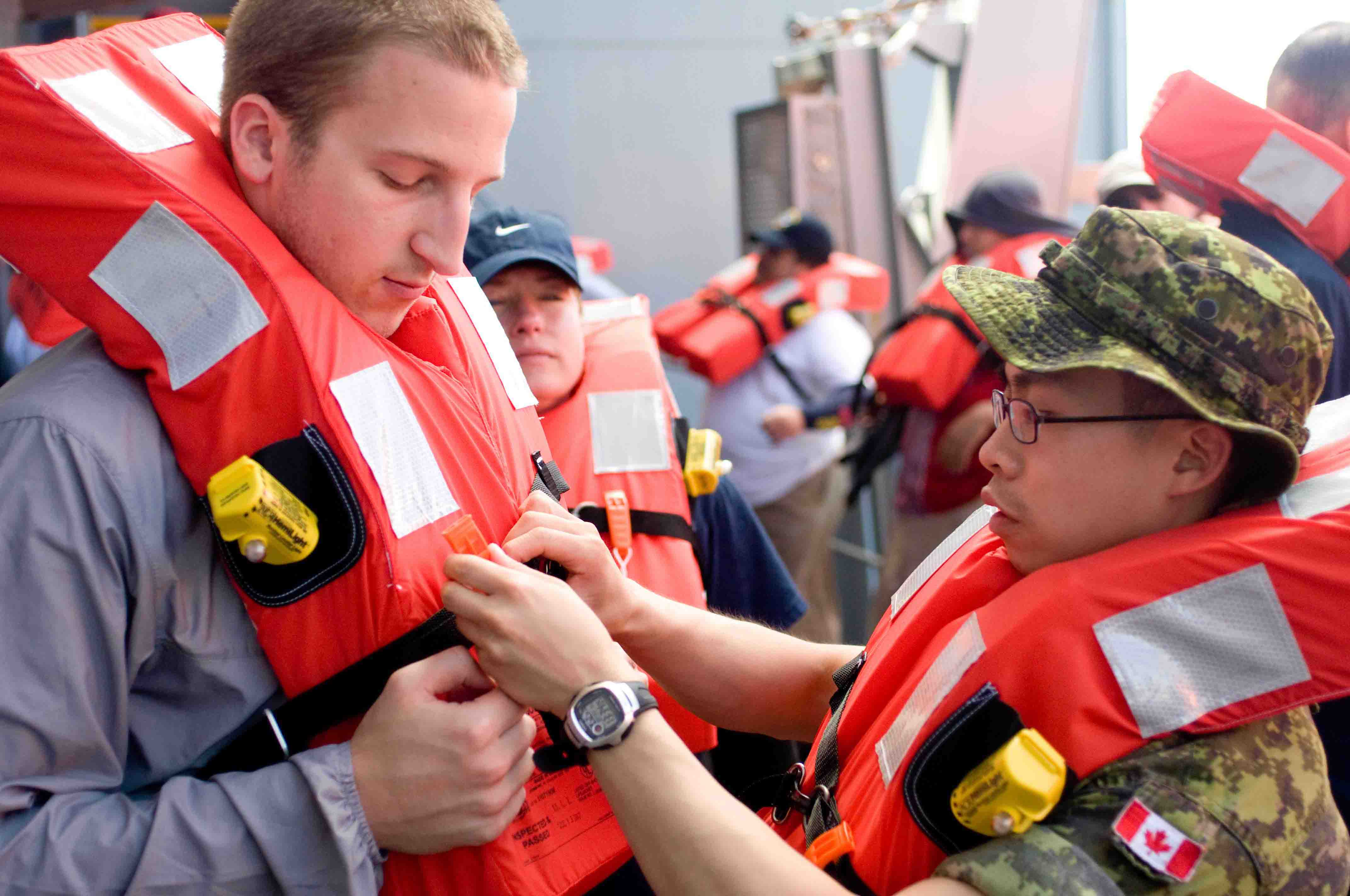 PACIFIC OCEAN (Aug. 5, 2009) Canadian Army Capt. Jason Yee, a dentist embarked aboard the Military Sealift Command dry cargo/ammunition ship USNS Richard E. Byrd (T-AKE 4), shows Project HOPE pharmacy student Stephen Creasy how to properly don a lifejacket during a man overboard drill. Richard E. Byrd is underway to the Solomon Islands for the next phase of the Pacific Partnership 2009 humanitarian and civic assistance mission. (U.S. Navy photo by Mass Communication Specialist 2nd Class Joshua Valcarcel/Released)